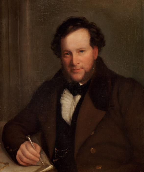 William Thomas, architect, engineer, surveyor, born 1799 in Suffolk, England; died 26 December 1860 in Toronto, Ont.